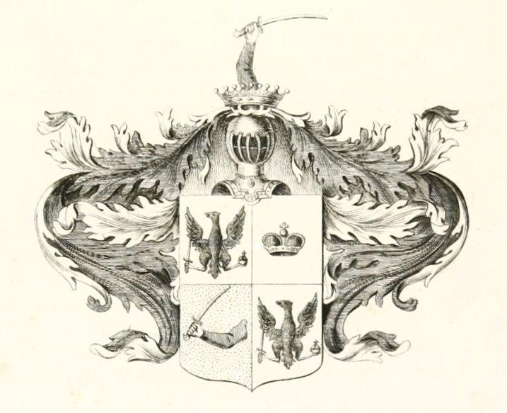 This (more than) 200 years old image has been reformatted, so it became a personal creation, with no rights attached